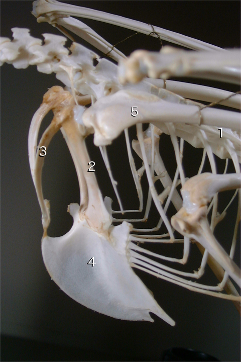 Shoulder girdle of Nycticorax nycticorax 1.scapula 2.procoracoid 3.clavicles (furcula) 4.sternum 5.humerus photograph taken by Preto(m)